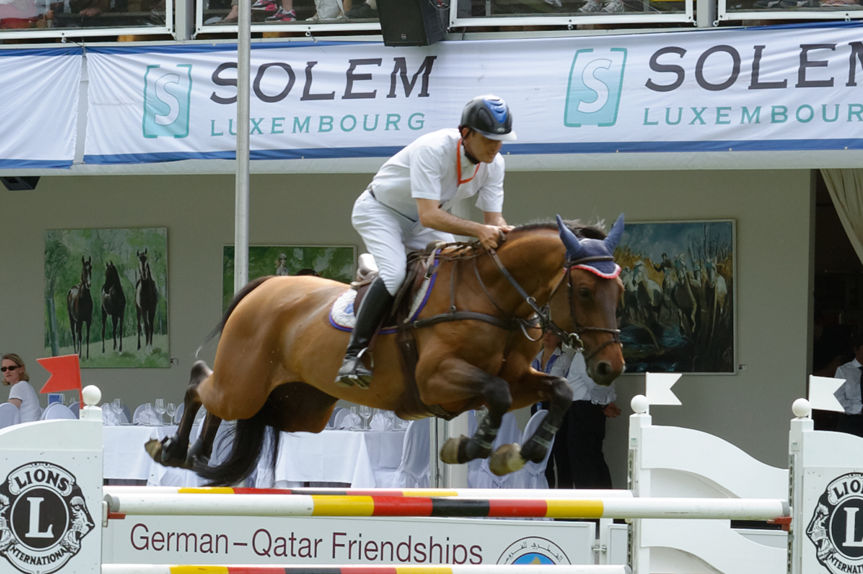 Internationales Pfingstturnier Wiesbaden 2014 The making of this document was supported by the Community-Budget of Wikimedia Germany.